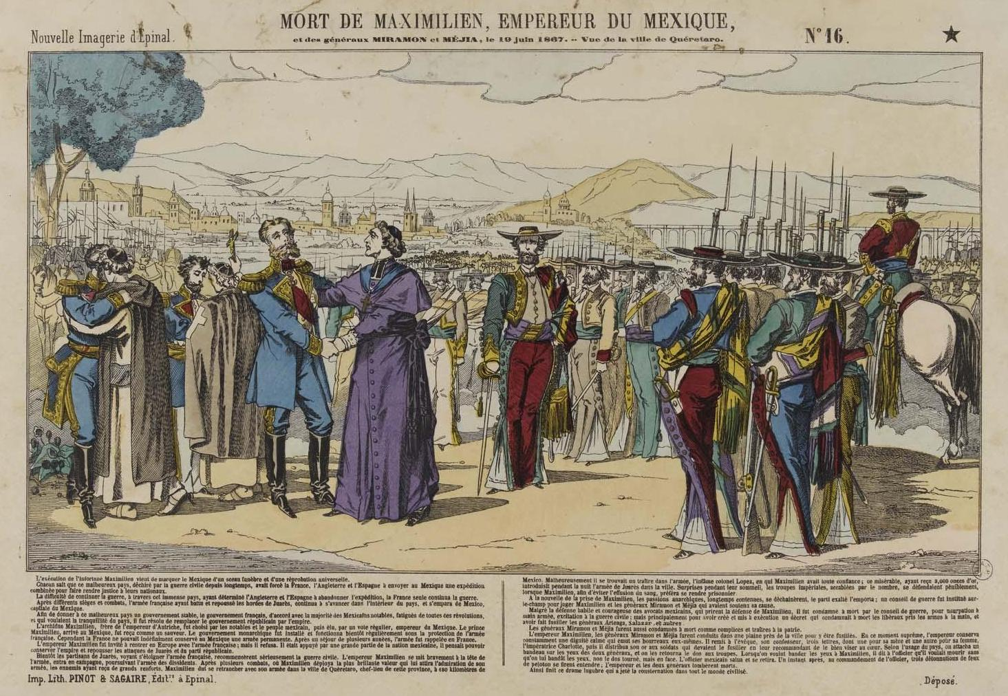 Execution of Emperor Maximilian I — in Mexico after his capture in 1867.